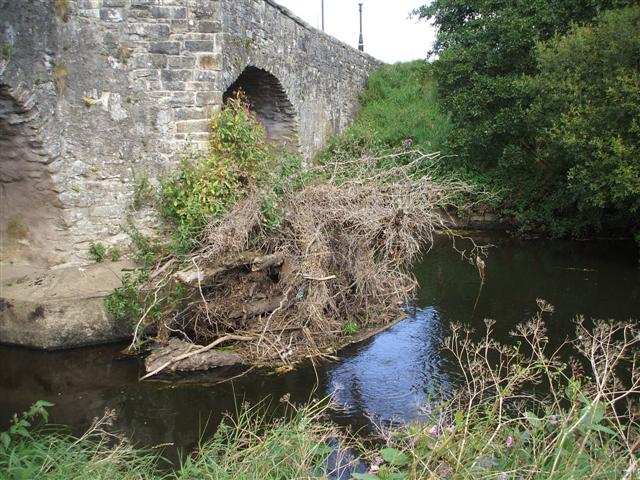 Drumragh River at King James Bridge, Omagh. Debris has accumulated from driftwood coming down the river and it has caught on the central arch support of the bridge. It may take the odd bit of flooding to push it along or perhaps the Rivers Agency will send someone to clear it.